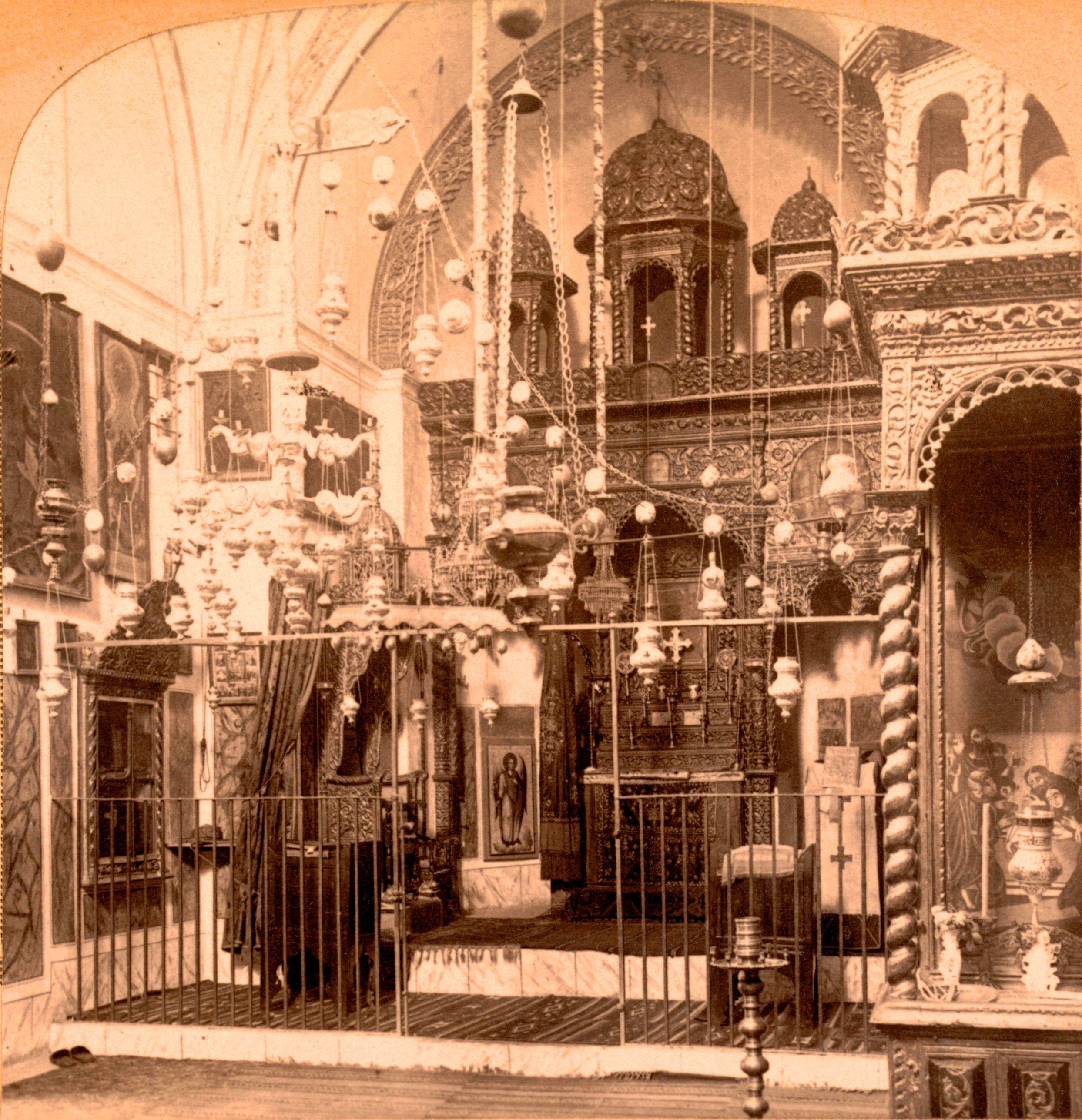 Beautiful little church of the Syrian Christians, Jerusalem, Palestine